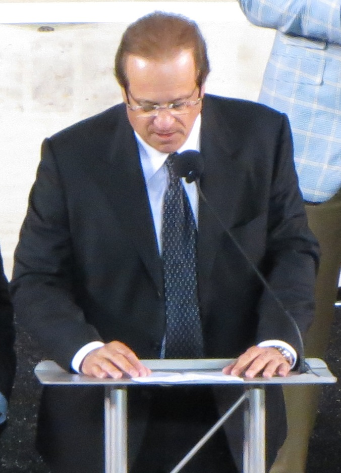 San Diego Chargers president Dean Spanos announces that Junior Seau's #55 is officially retired